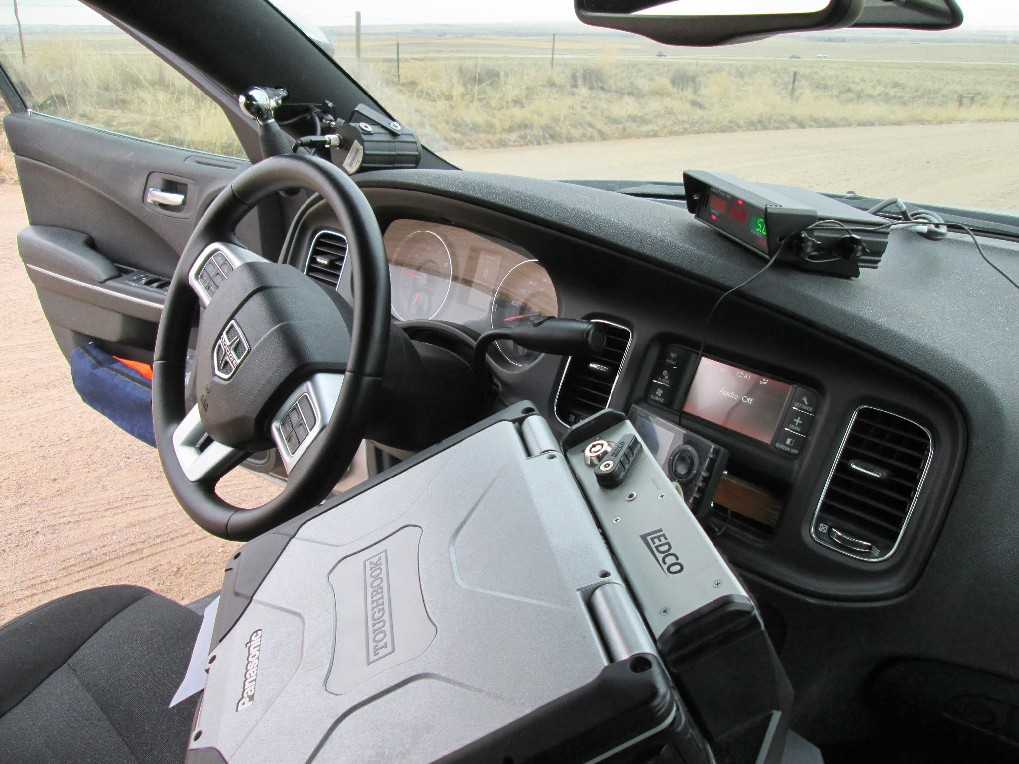 Interior image of Dodge Charger patrol vehicle used by Colorado State Patrol.